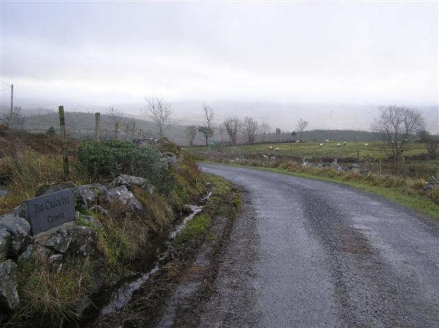 Road at Creea. Heading south; note the townland sign on the wall to the left - see 1089658